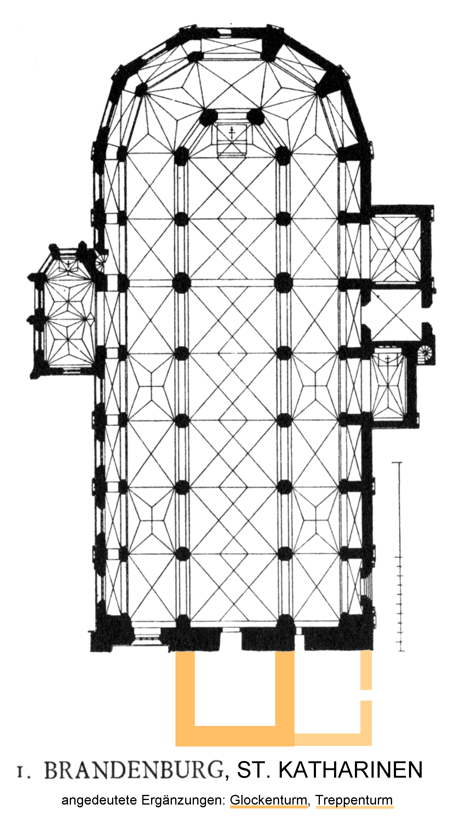 Dehio-plan of St. Katharinen in Brandenburg an der Havel, completed by wikipedian Brandenburg